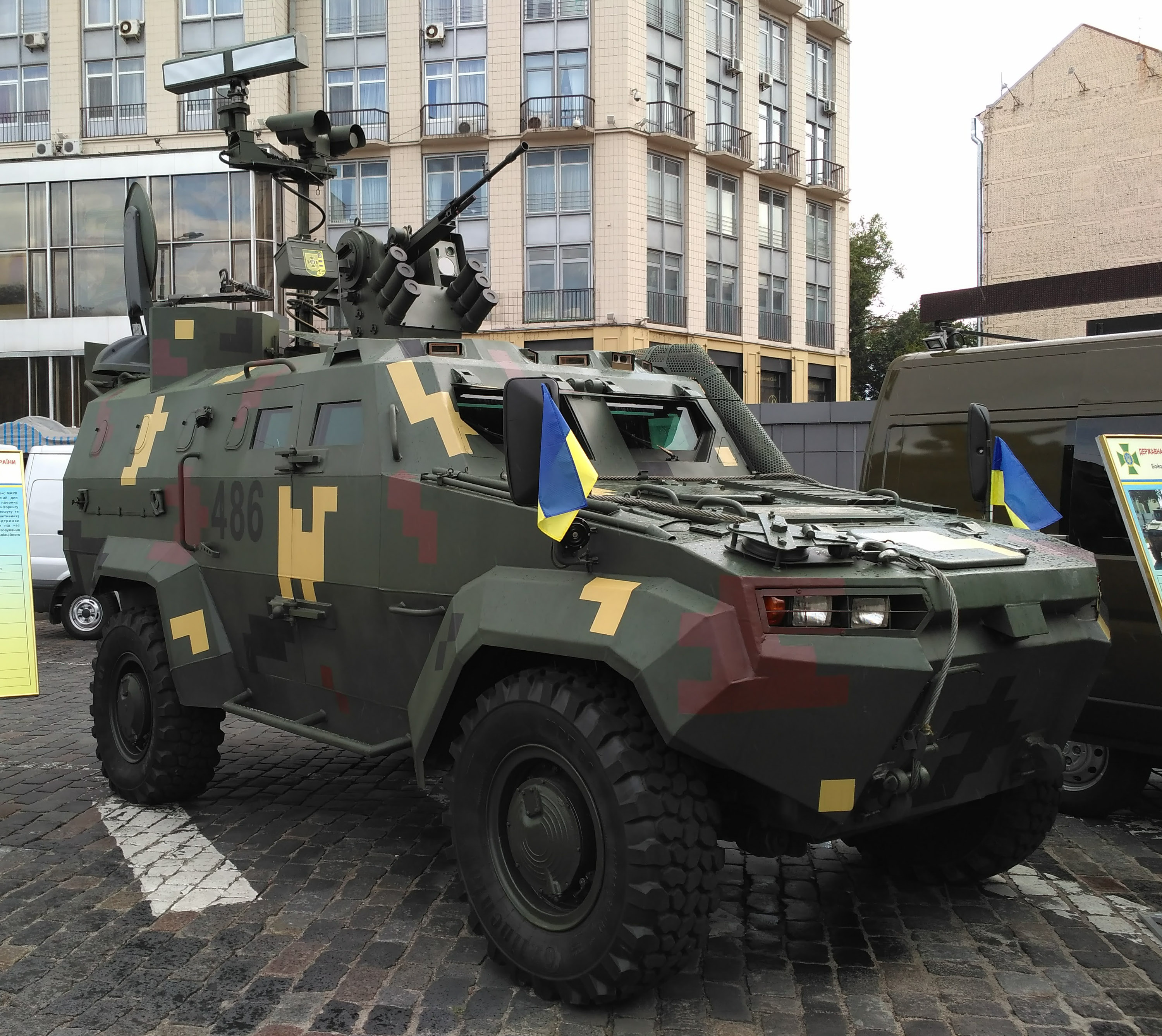 BM Triton reconnaissance vehicle, Kyiv 2017